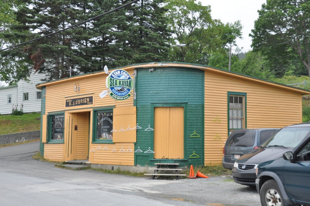 R.J. O'Brien's General Store, Cape Broyle, Newfoundland.